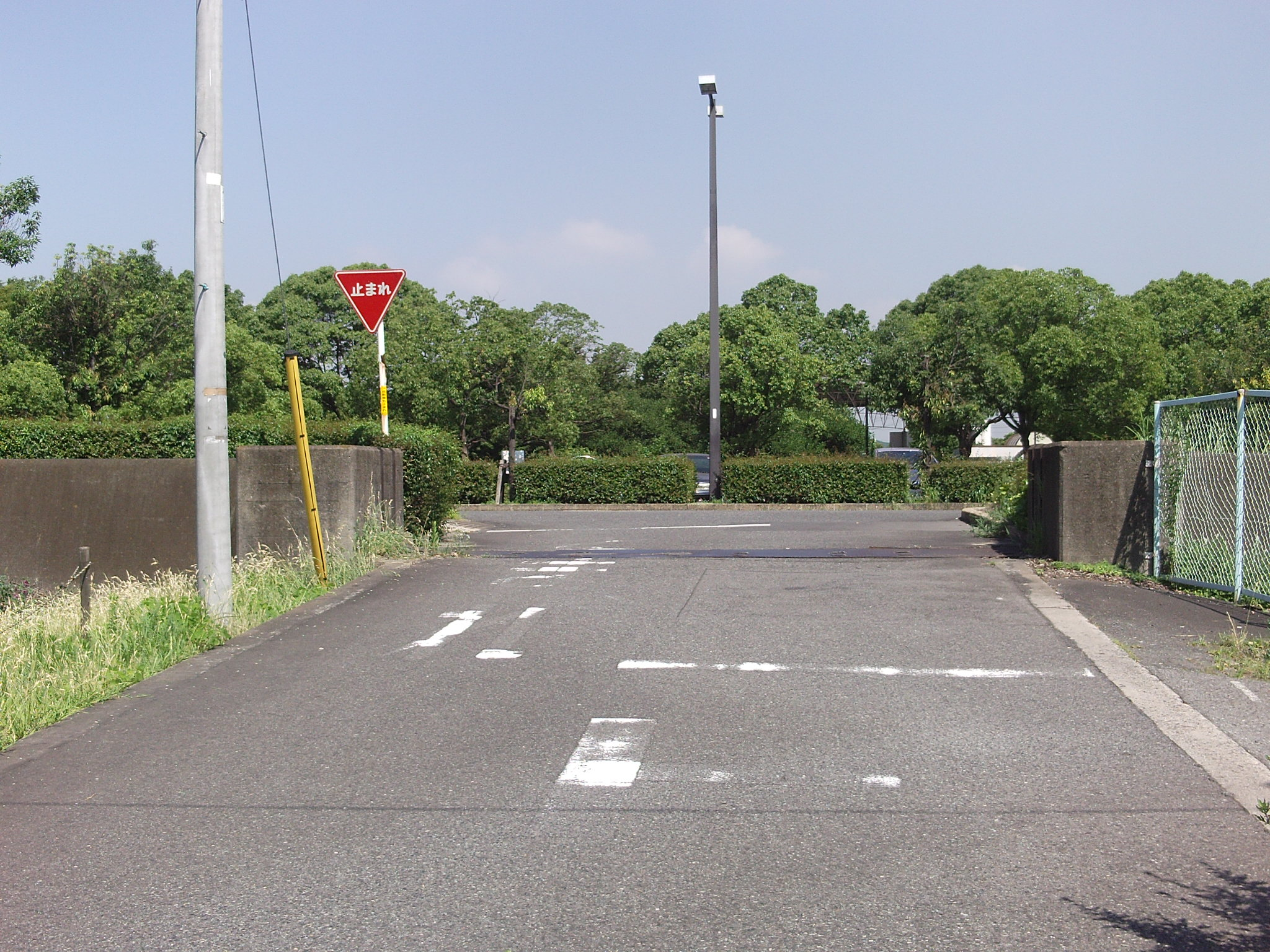 Startin point of Aichi prefectural road No.250 in Yokosukacho, Tokai, Aichi. This is the old prefectural road.